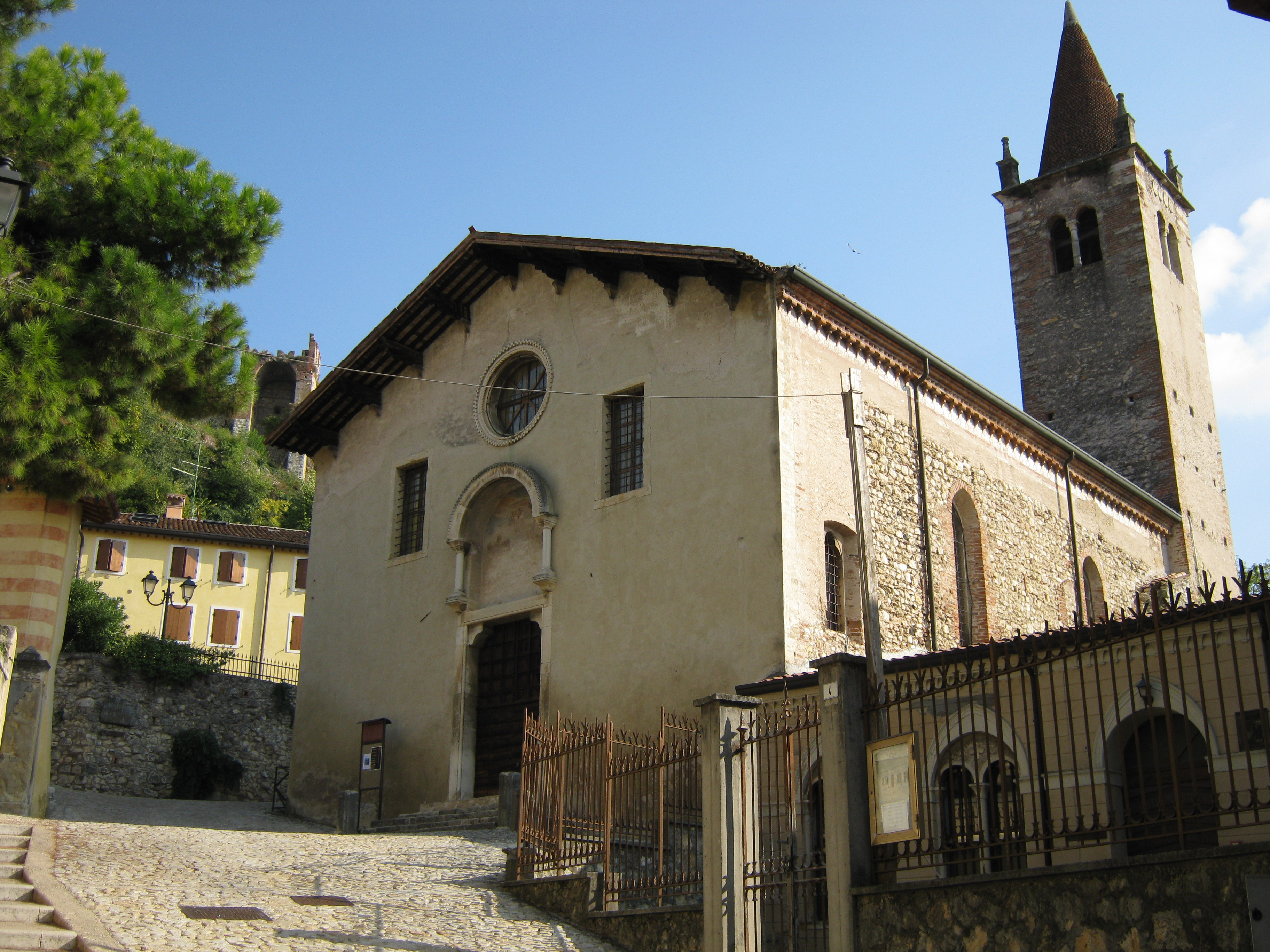 Santa Maria dei Domenicani church in central Soave, Veneto, Italy (built 15th century)